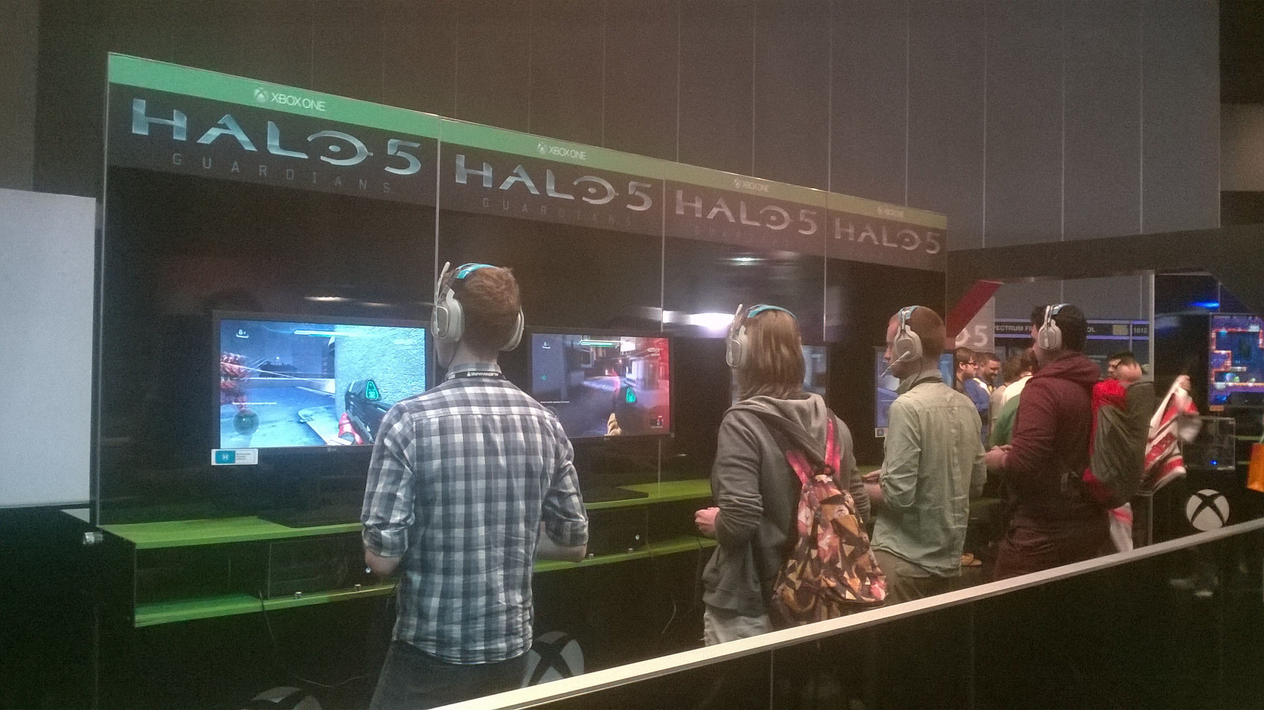 People playing Halo 5. Taken at PAX Australia 2015.